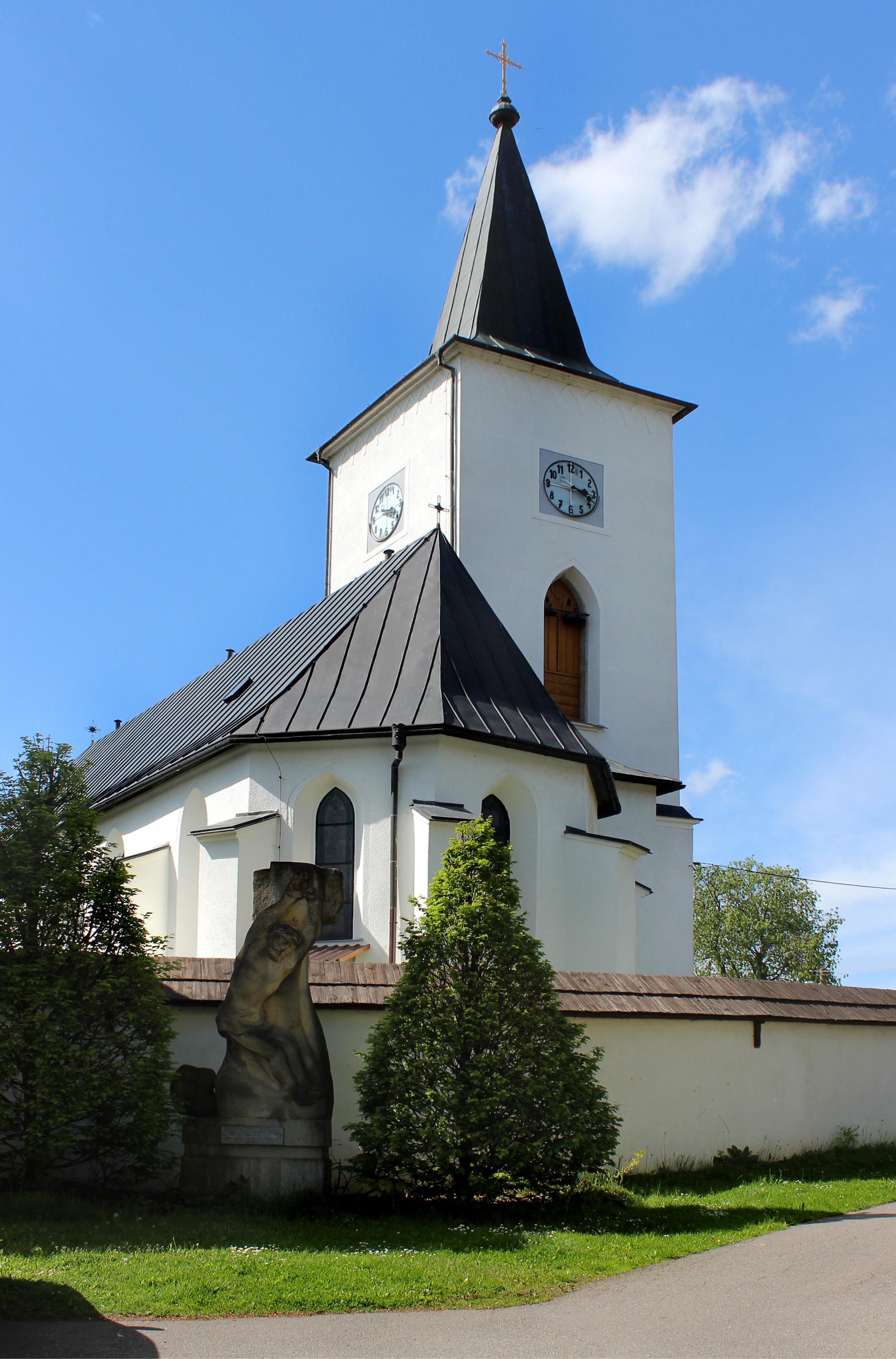 Church of Saint James the Greater in Velká Losenice, Czech Republic